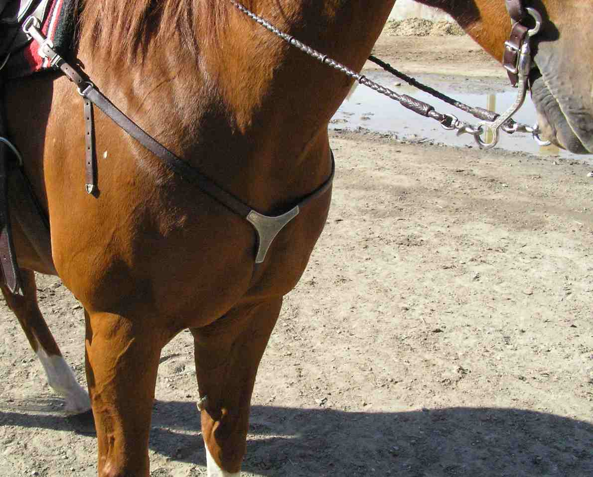 A western-style breast collar, a refined design used for show purposes